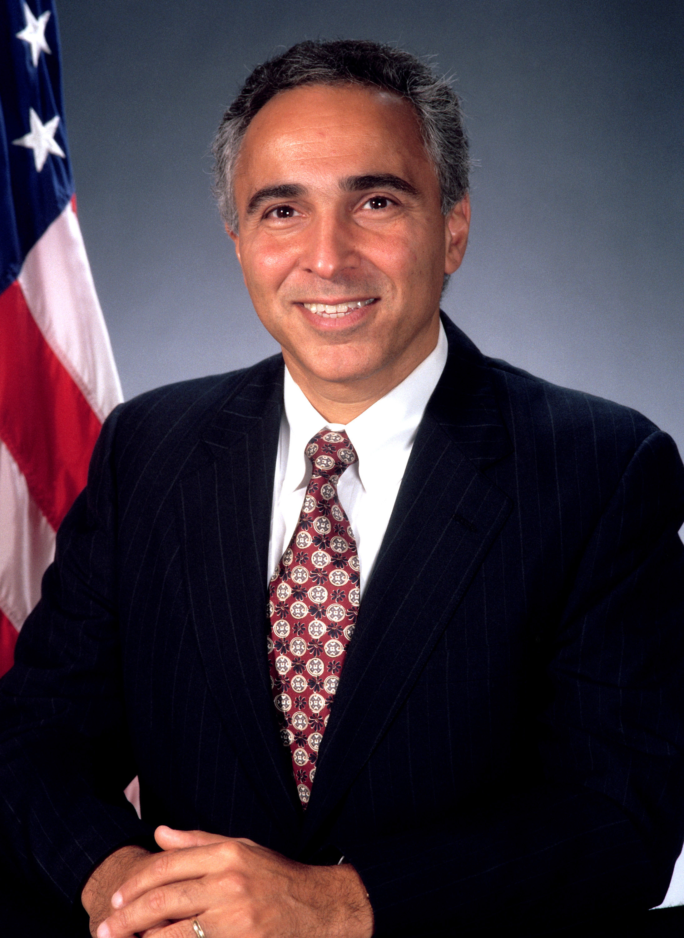 United States Department of Defense SES-4 Donald Mancuso.